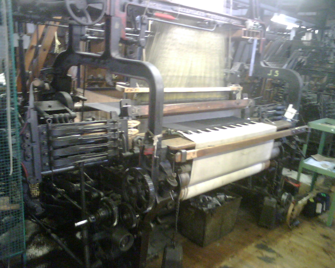 Picture of 75 year-old Moxon Hattersley Loom, taken at Yew Tree Mills, Yorkshire, Huddersfield, England.